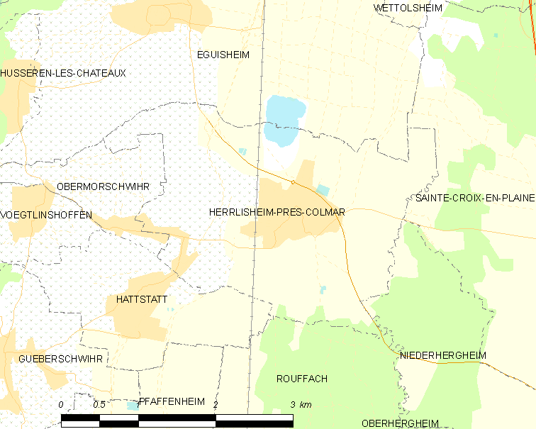 Map of French municipality